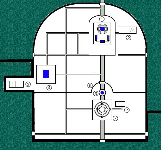 Scheme of the temple of Heaven in China, with numbers for the legends so it can be reused in various languages 1 = Hall of prayer for Good Harvests 2 = Seven-Star Stone Group 3 = Imperial Music Store 4 = Fasting Palace 5 = Echo Wall 6 = Imperial Vault of Heaven 7 = Divine storehouse 8 = Circular Mound Altar